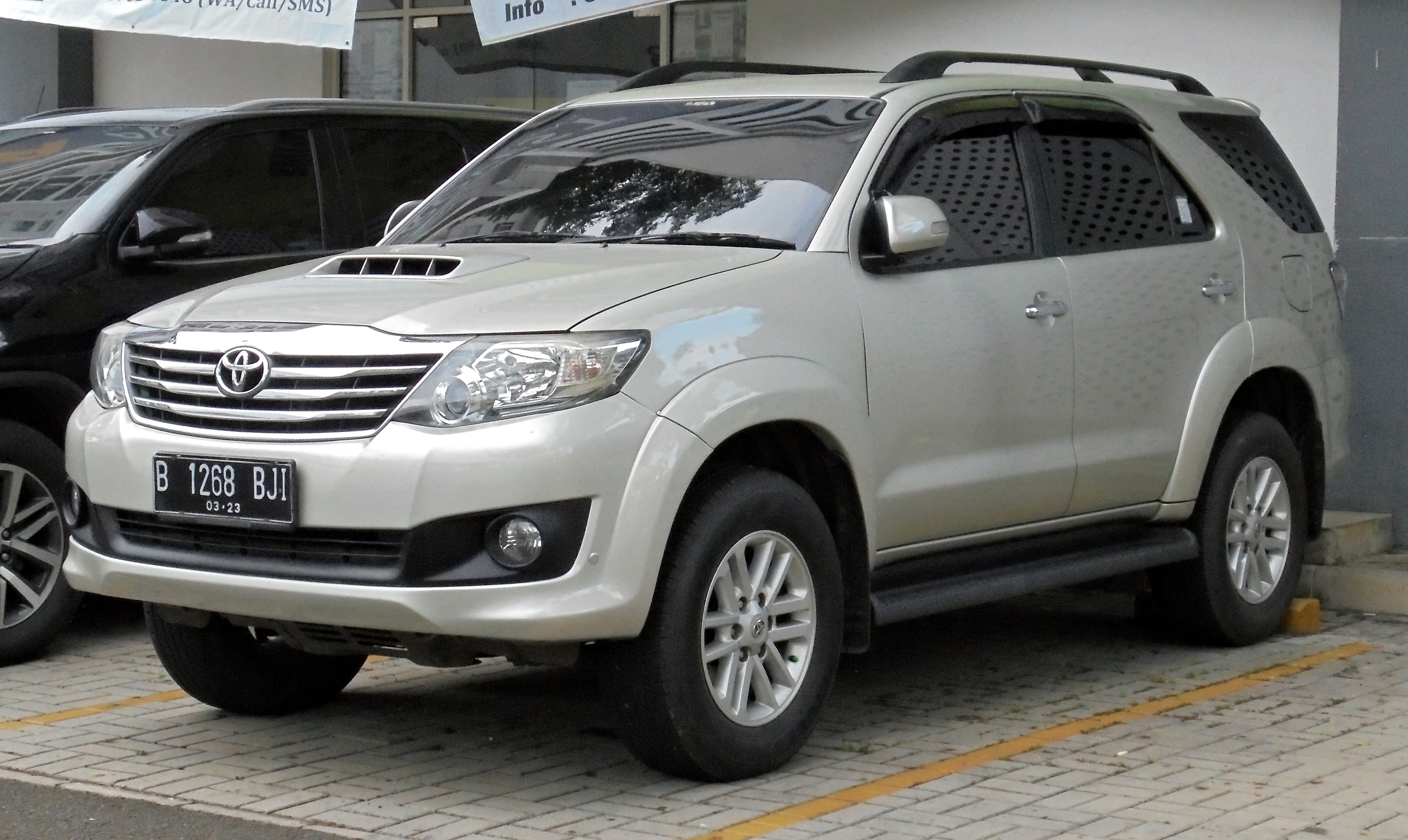 2013 Toyota Fortuner 2.5 G wagon (KUN60R) photographed in South Tangerang, Banten, Indonesia.